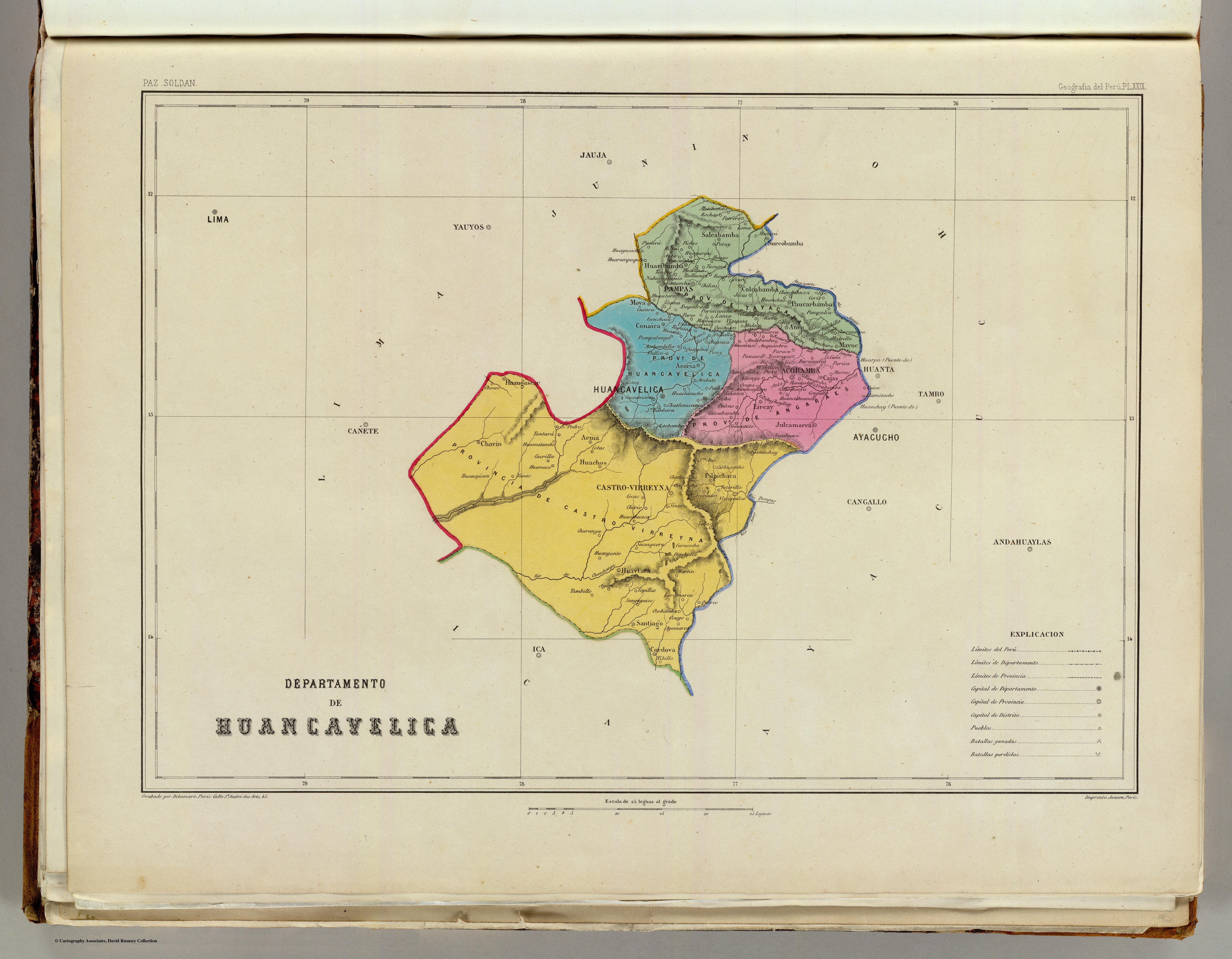 Mariano Paz Soldan Maps of Peru, Huancavelica, 1865